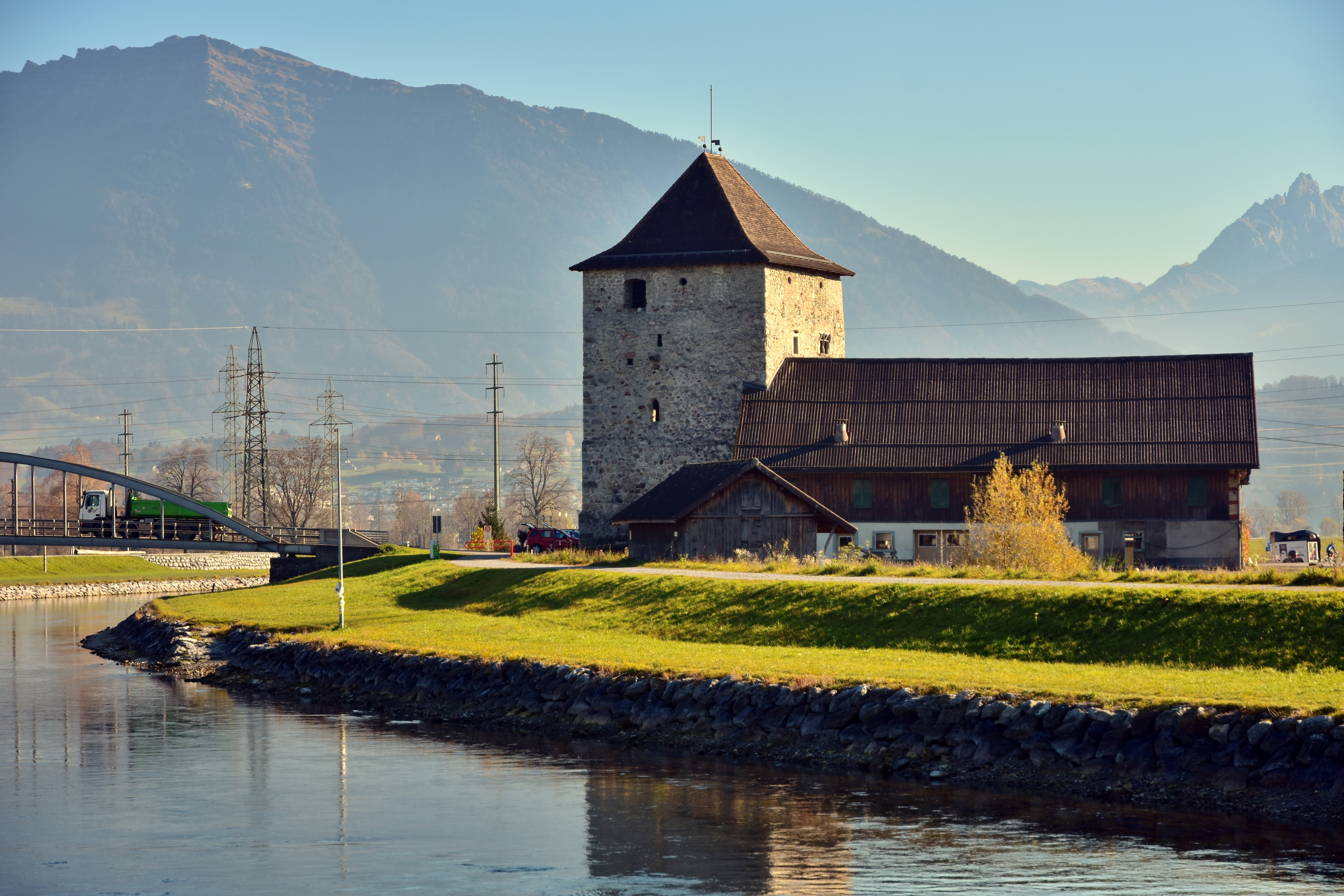 Grynau (Grinau or Schloss Grynau) is a castle tower, situated on the Linth canal in the Swiss municipality of Tuggen in the Canton of Schwyz on the eastern slope of the Buechberg hill. It was built by the House of Rapperswil in the early 13th century AD when the tower was situated on the Tuggenersee lake shore.